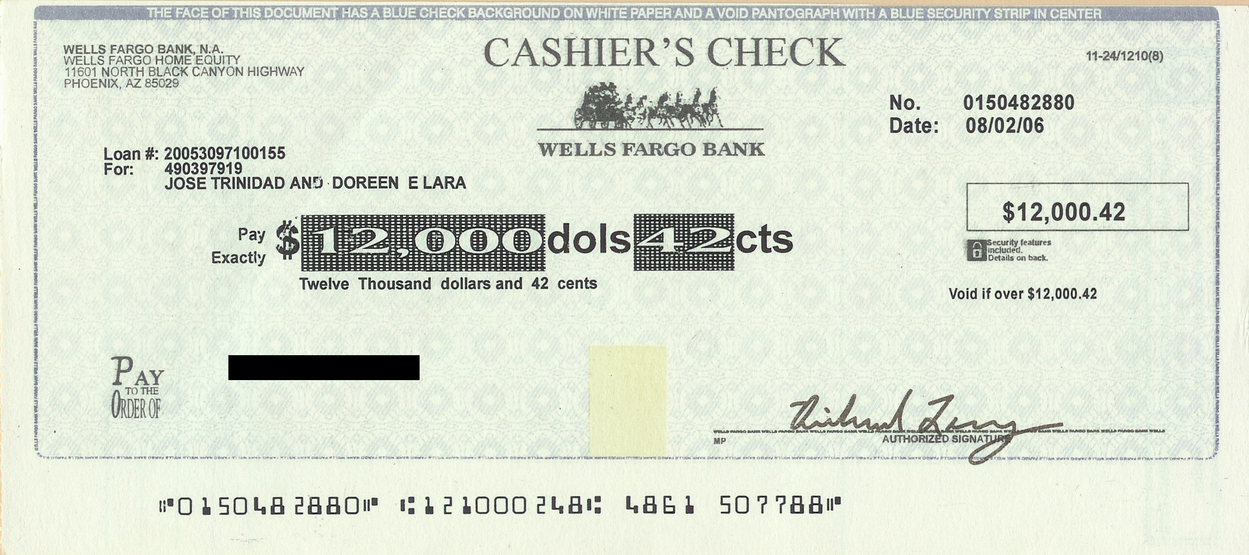 A scan of a counterfeit cashier's check that is made to appear to be issued by Wells Fargo Bank. Some personal information regarding the recipient has been blacked out. It is shown to be from JOSE TRINIDAD and DOREEN E LARA